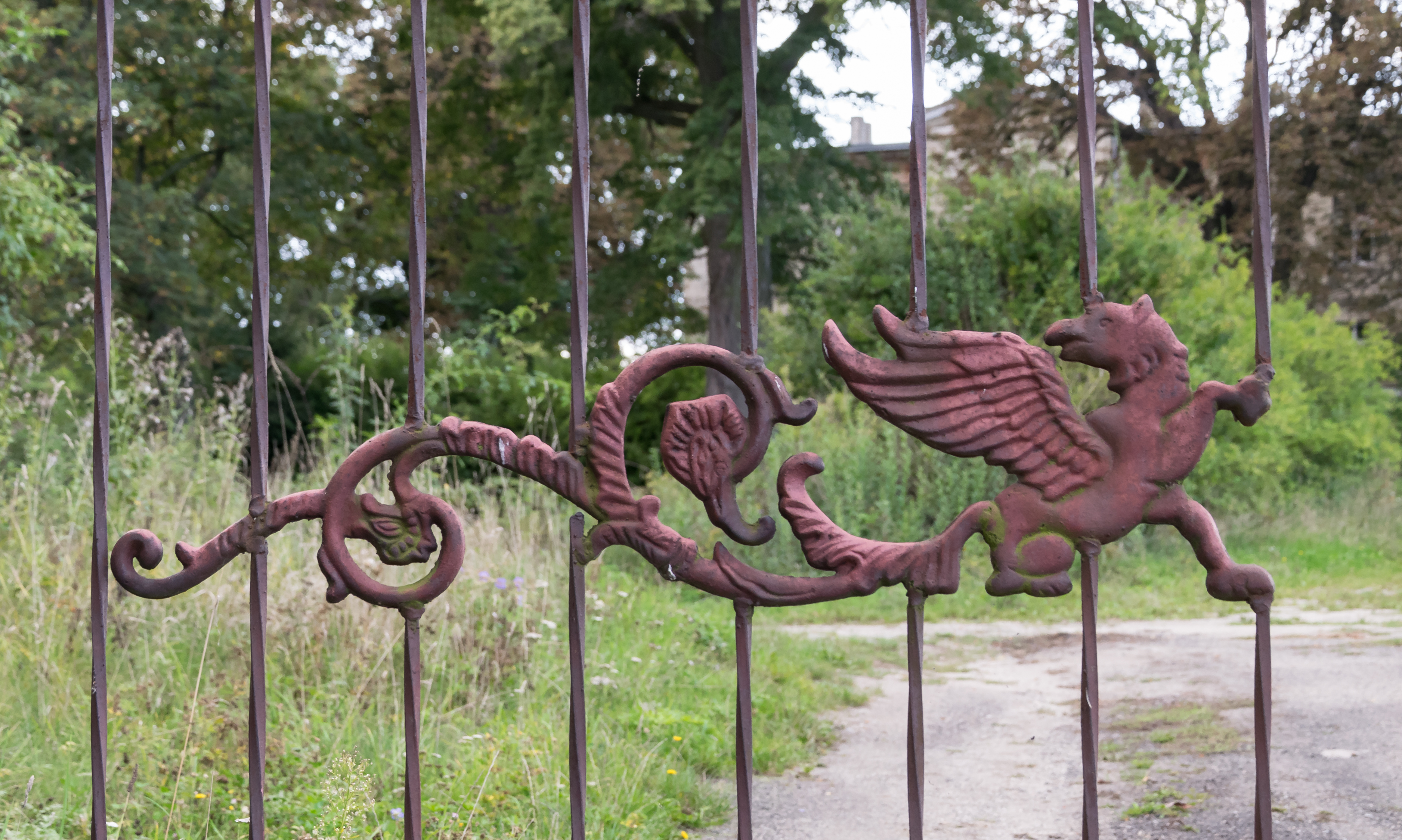 Surroundings of the Palace in Brodziszów